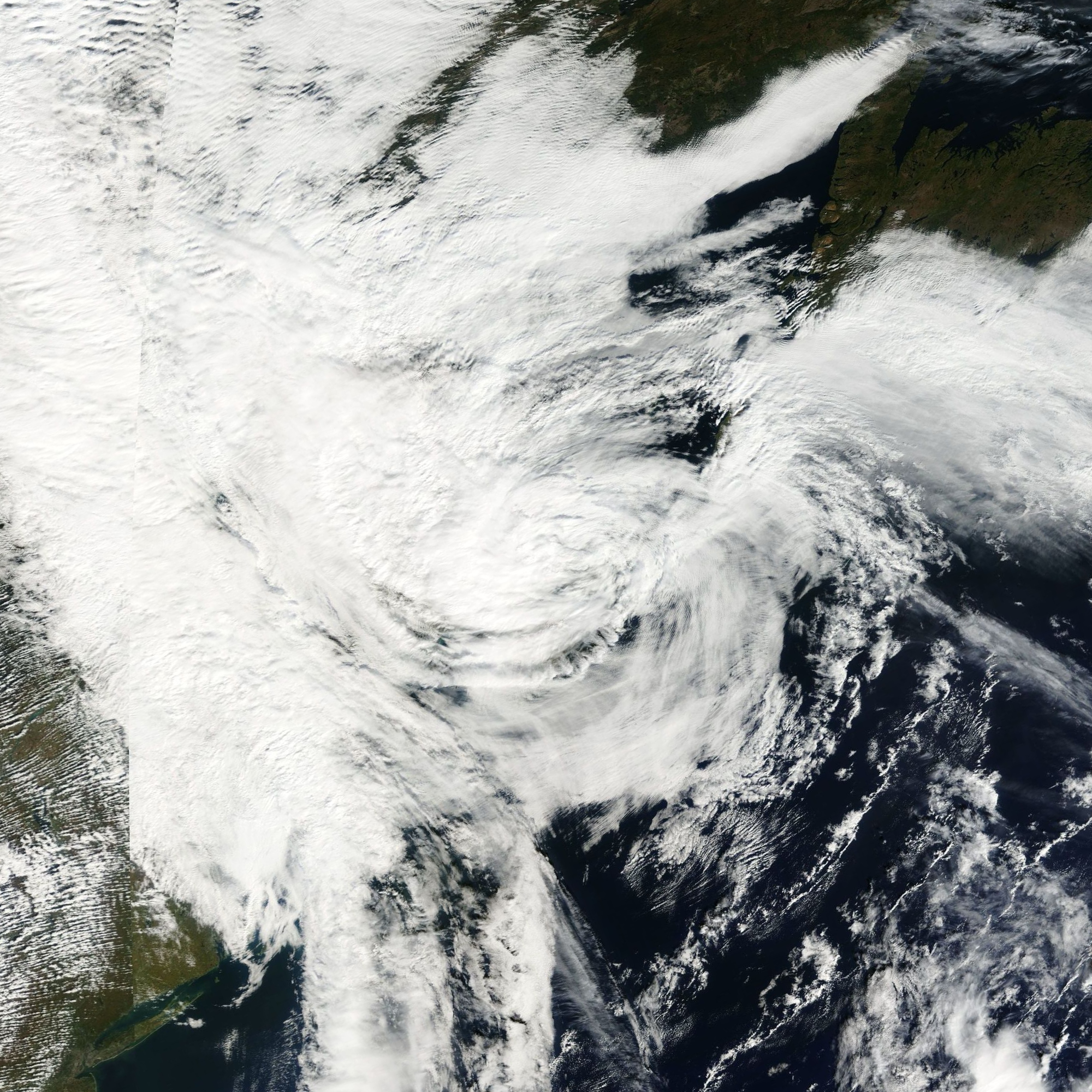 Tropical Storm Karen shortly after making landfall on Nova Scotia in October of 2001